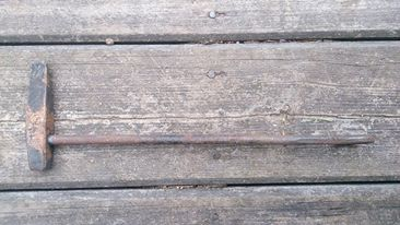 Old type of soldering iron usually heated in a flame.